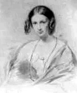 Image from her memoirs - Priscilla Buxton Johnston (1862). Extracts from Priscilla Johnston's Journal and Letters. C. Thurnam